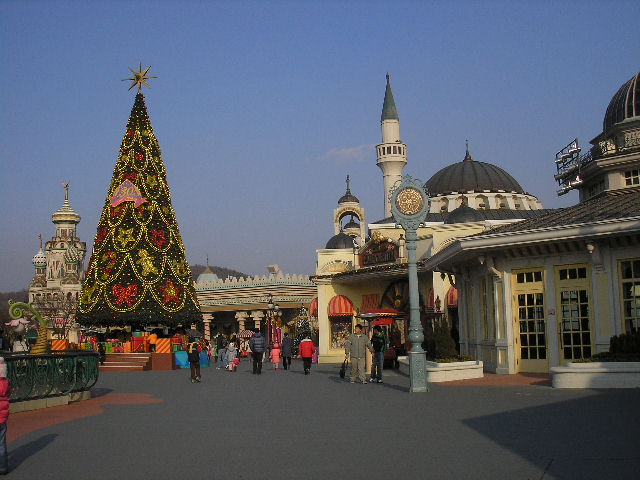 Everland, amusement park located in Yongin, Gyeonggi province, South Korea.